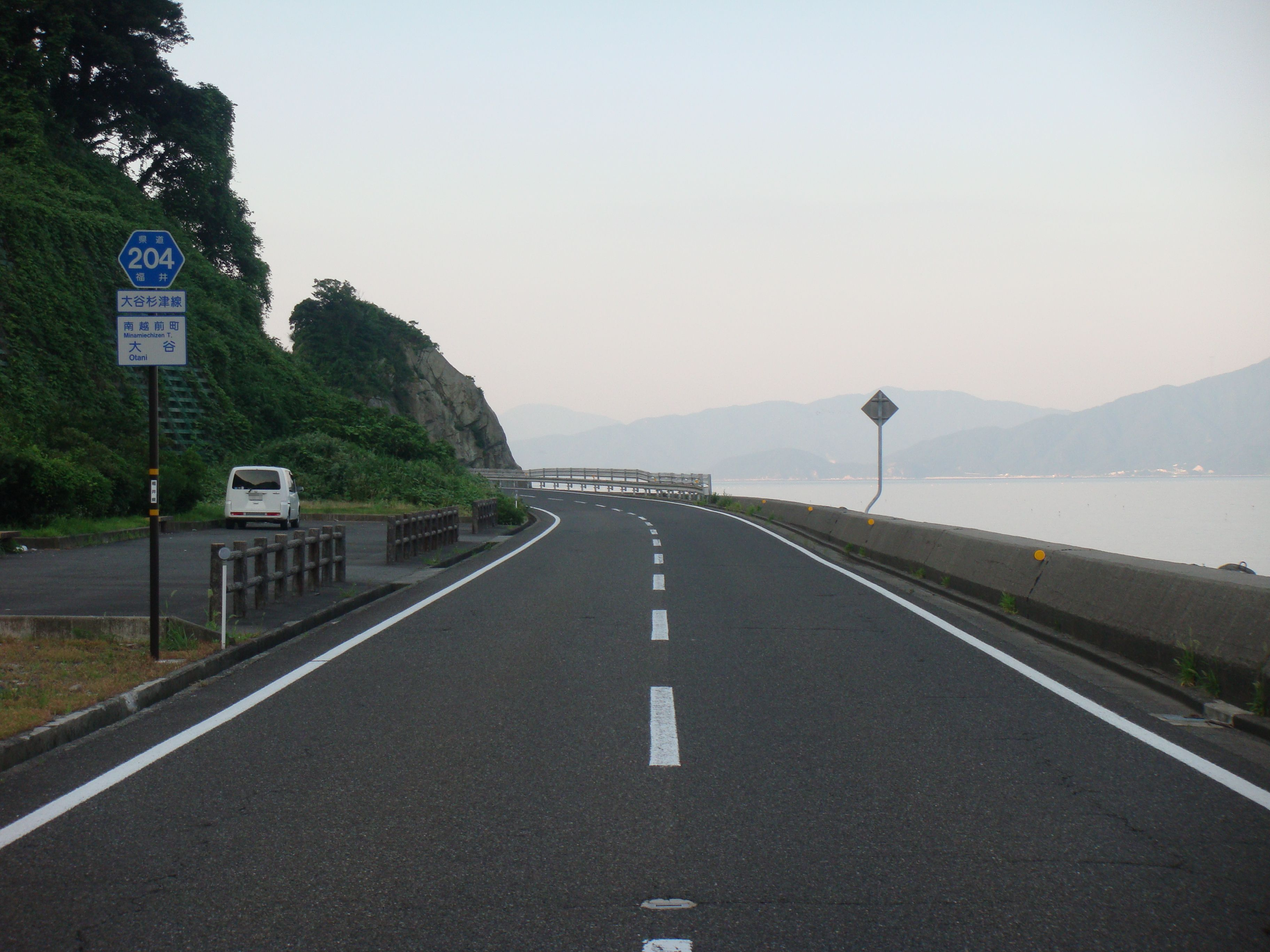 The Fukui Prefectural Road Route 204 Otani-Suizu Line, section Echizen-Kono Shiokaze Line, in Otani, Minamiechizen Town